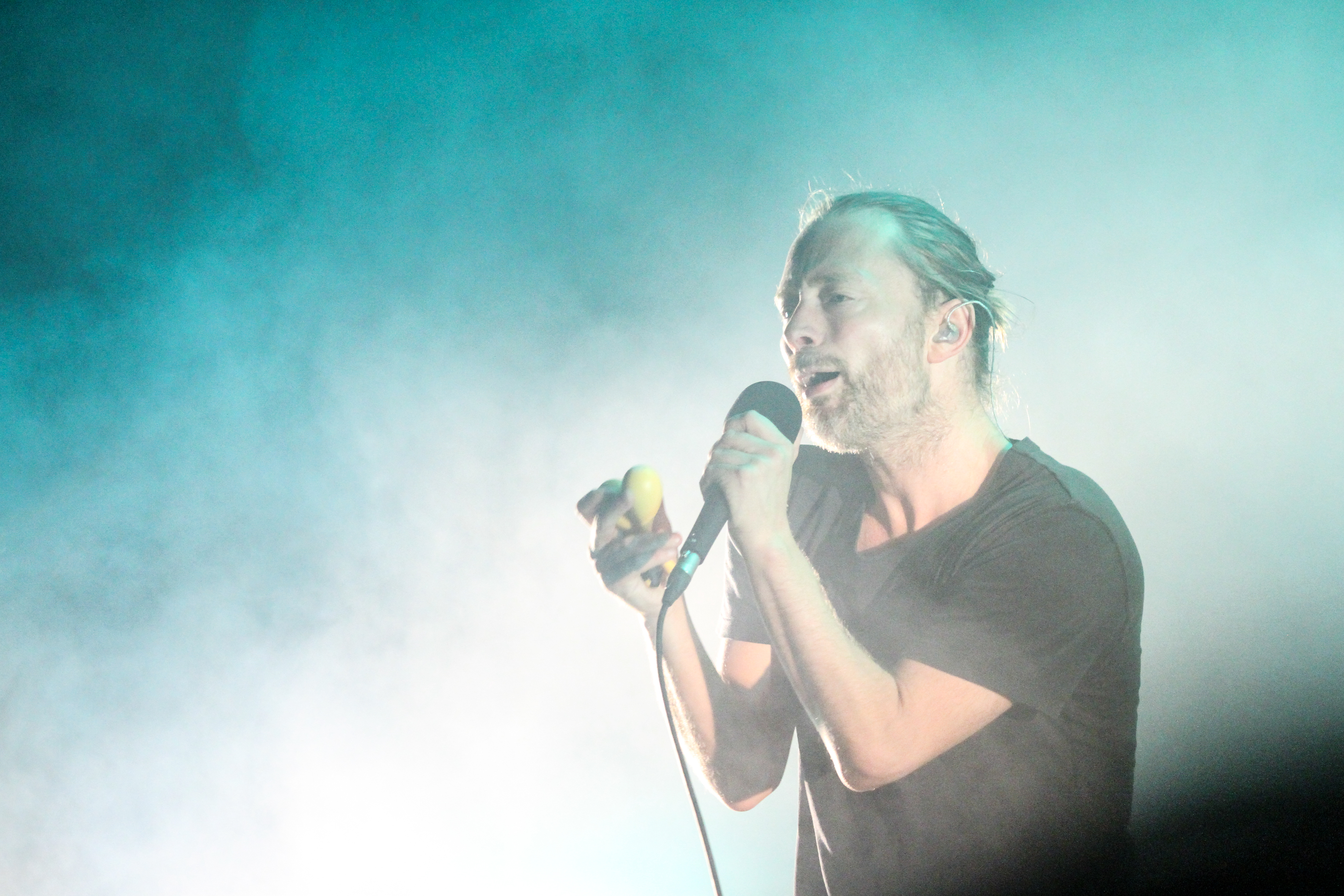 Atoms For Peace performing at Melt! Festival 2013